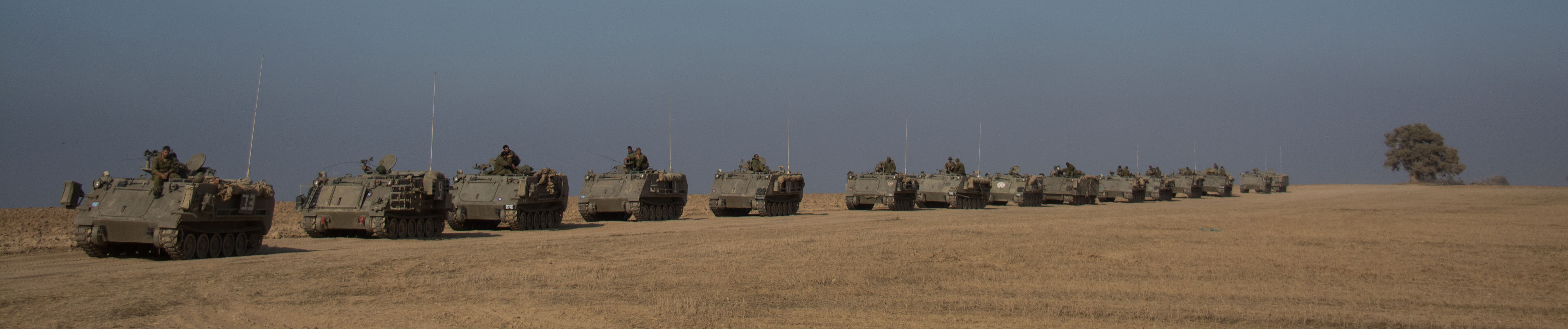 Armored Personnel Carriers on their way to the Gaza border For more updates: The Israel Defense Forces Facebook The Israel Defense Forces blog Follow us on Twitter